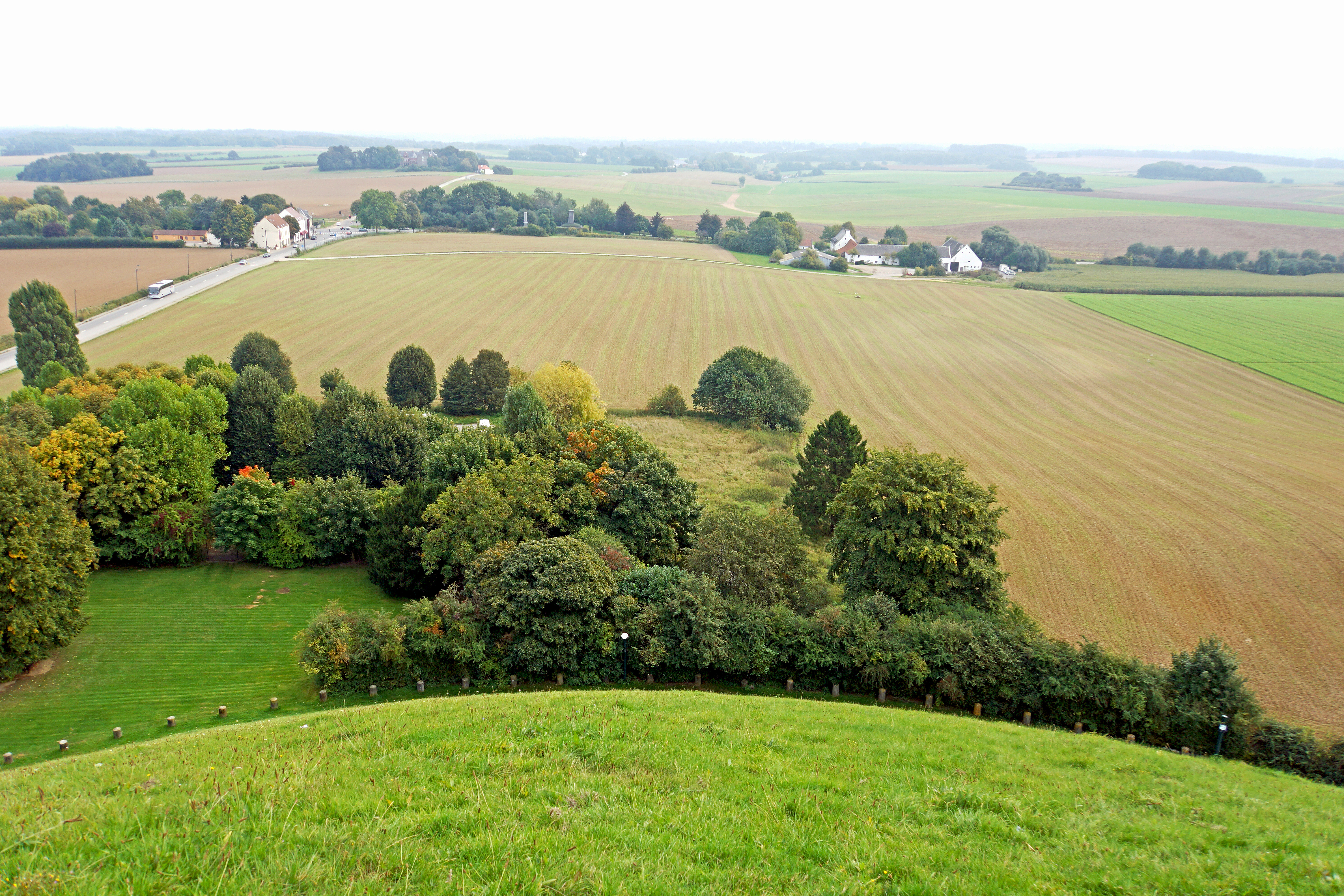 A panoramic view of the battlefield.